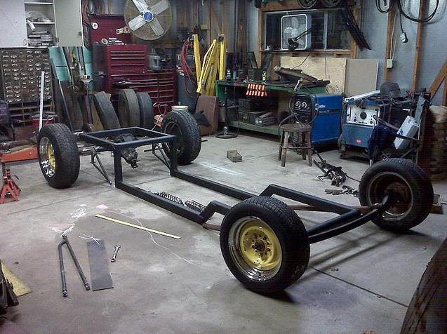 Hot Rod / Rat Rod Perimeter Frame created by